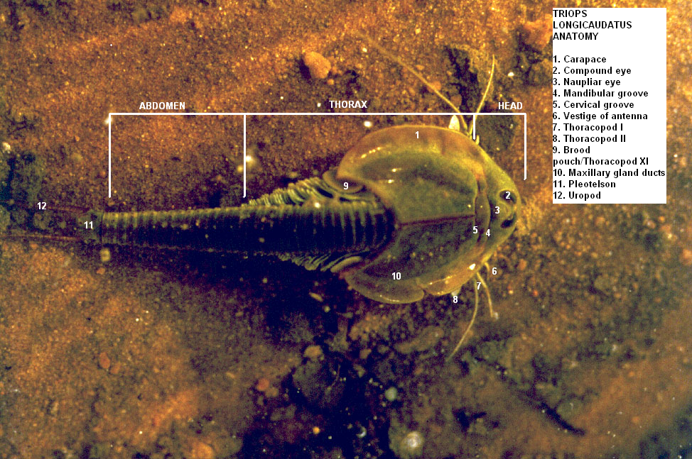 Morphology of Triops longicaudatus